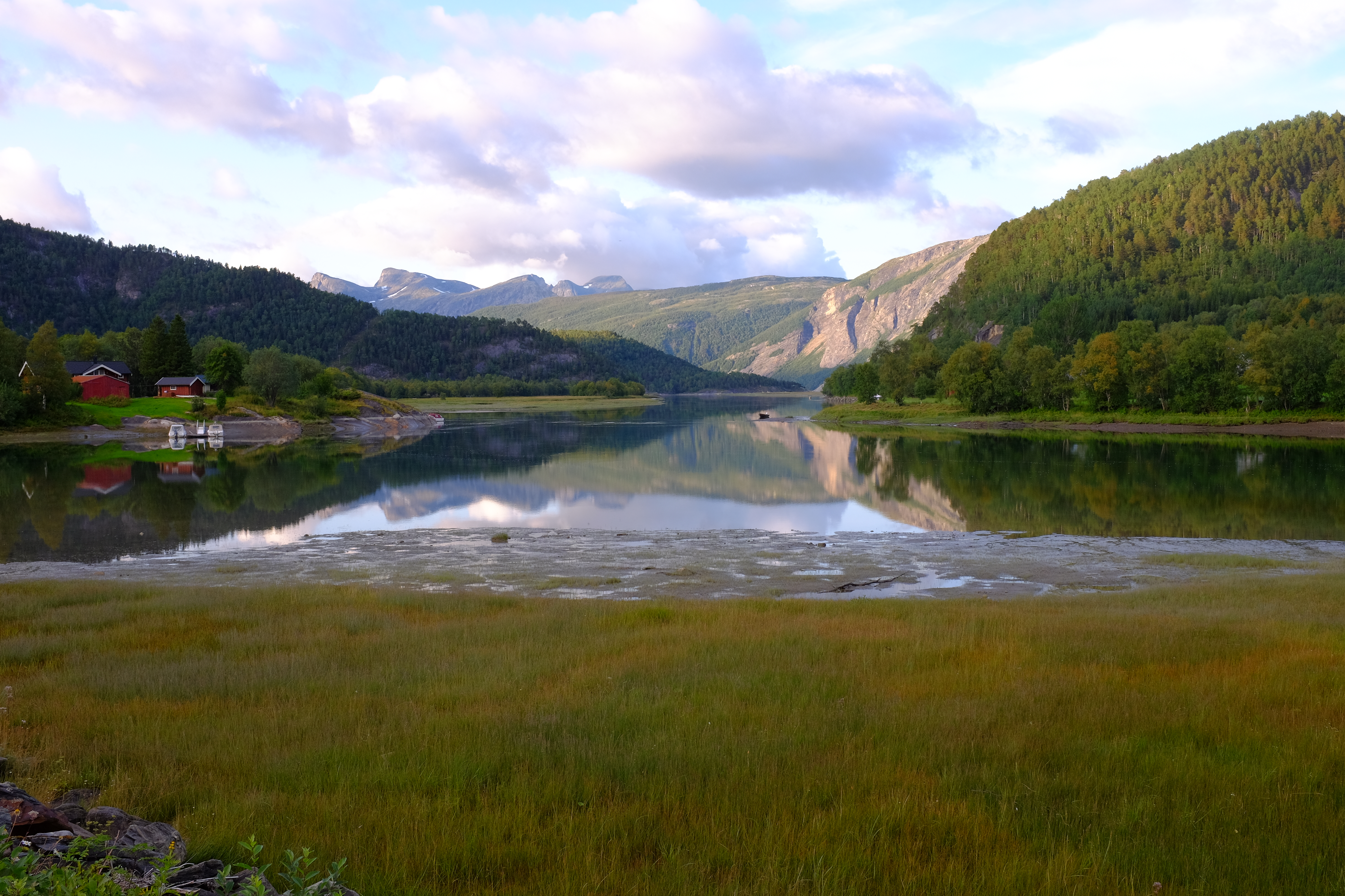 Beiarelva river lower part at Arstadberget, Beiarn, Nordland, Norway.